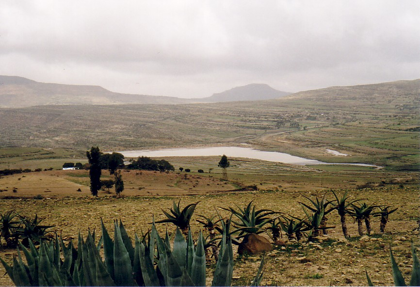 May Leiba 1